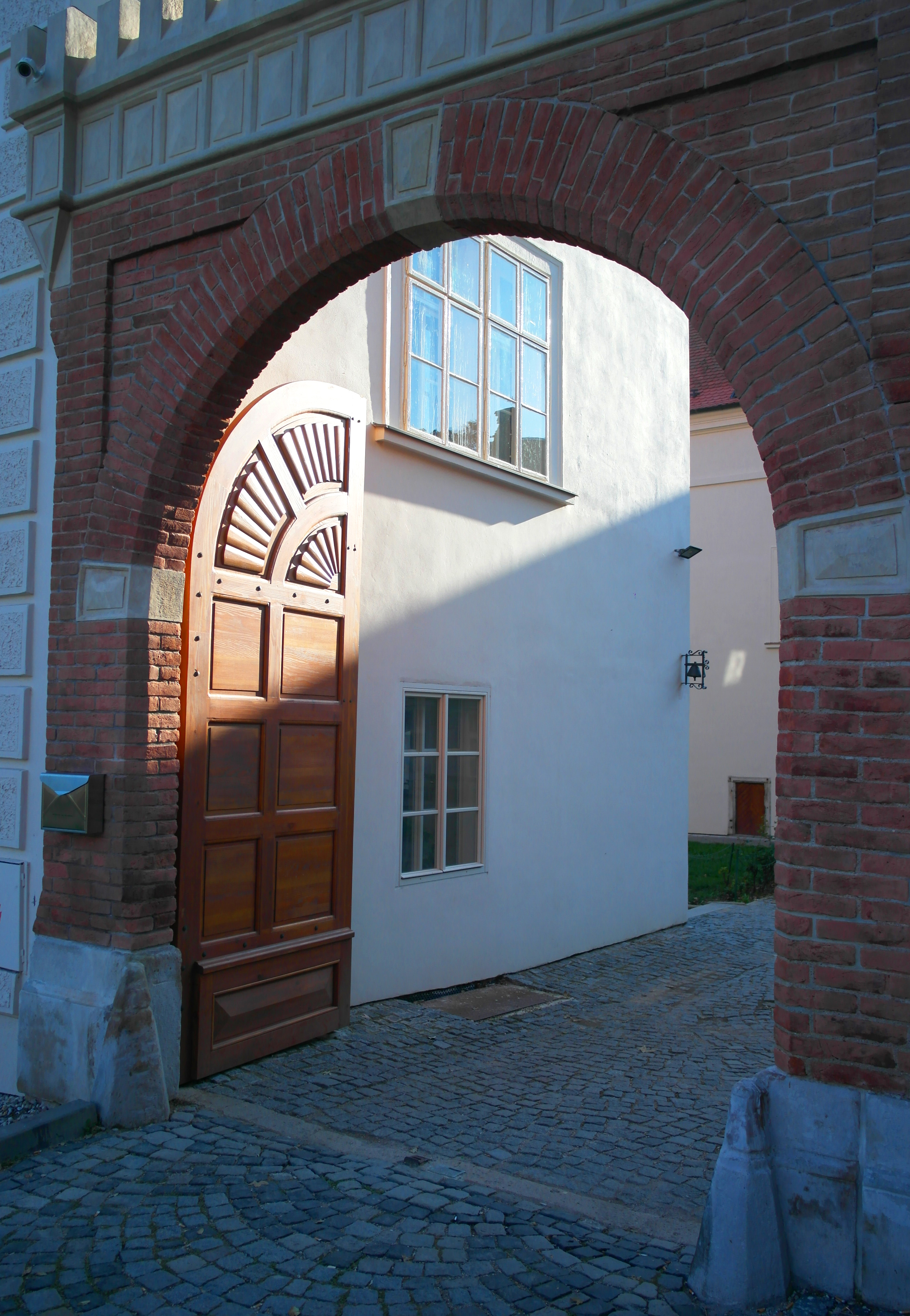 Castle chateau Kuřim gate